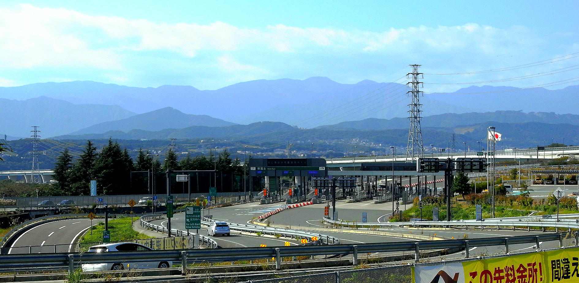 Entrance of Shin-Fuji interchange on New Tōmei Expressway